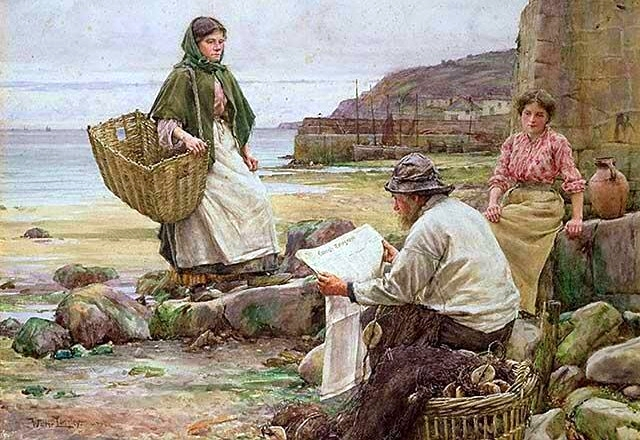 Newlyn: Catching Up With The Cornish Telegraph